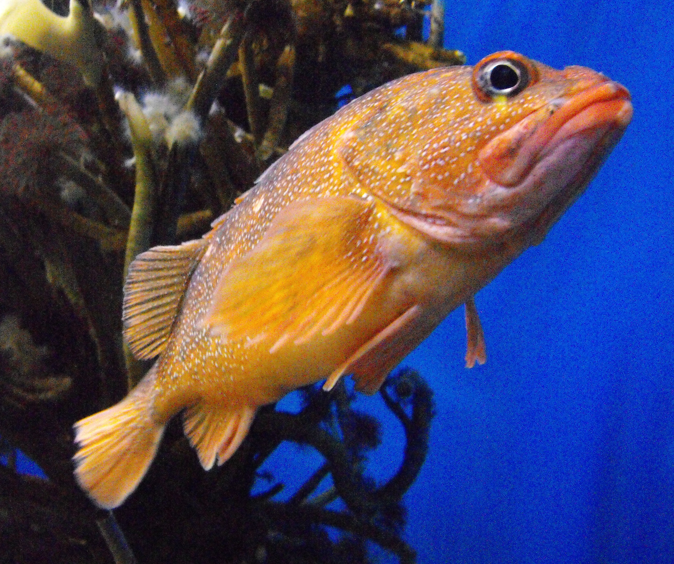 Sebastes constellatus at the Birch Aquarium in San Diego, California, USA.